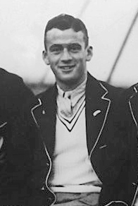 New Zealand athletes on board Wanganella on their way to the Berlin Olympics, 14th June 1936. George Giles.